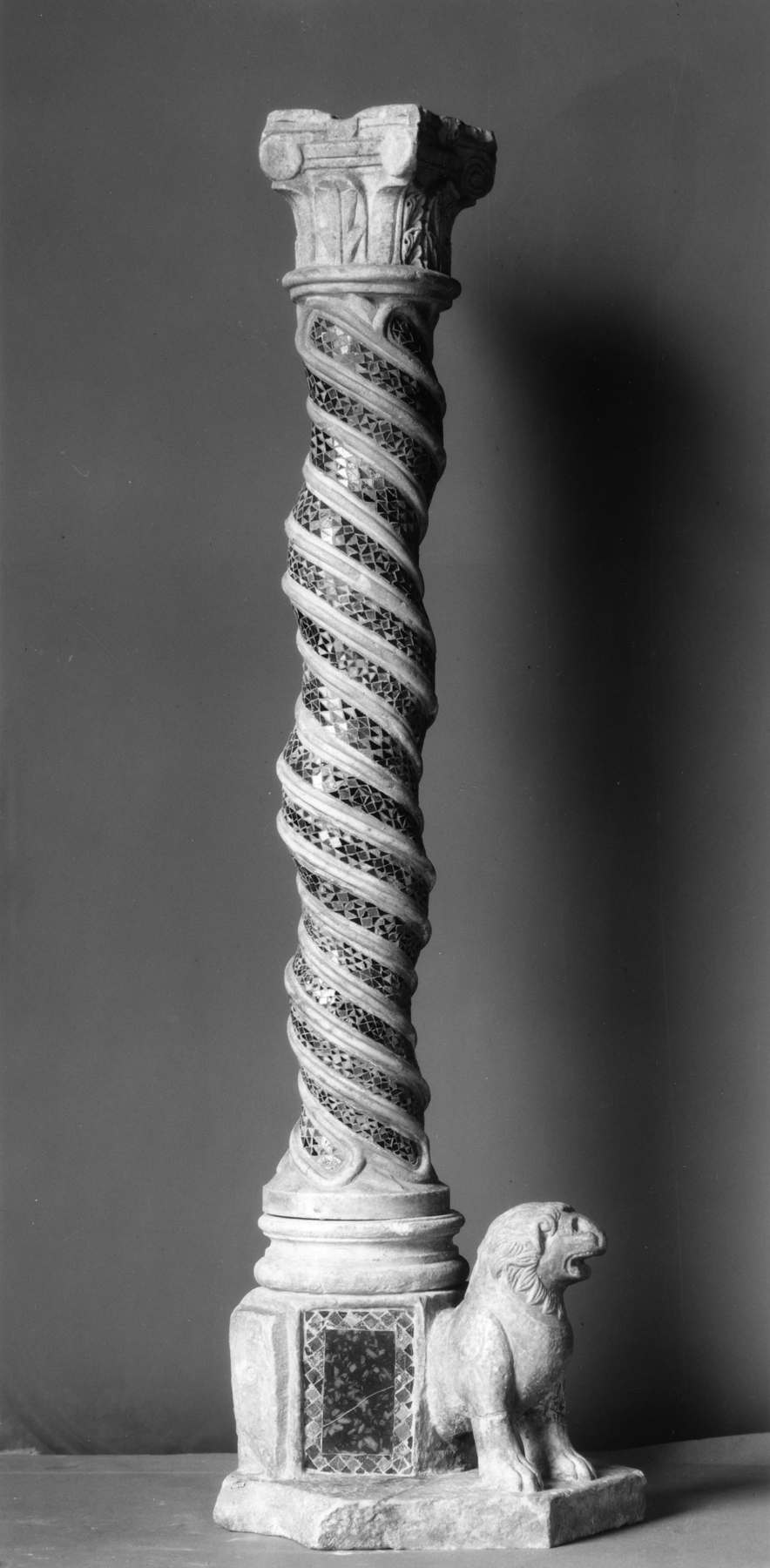 These decorative columns probably came from a ciborium or pulpit. The capital is a stylized version of an antique capital, many of which were re-used in a somewhat earlier period. The inlaid glass and stone fragmnets that decorate the column-- called "cosmati" decoration-- is typical of central and southern Italian design and occurs on columns, facades, tombs and even floors (stone inlay). The column bases are modern.